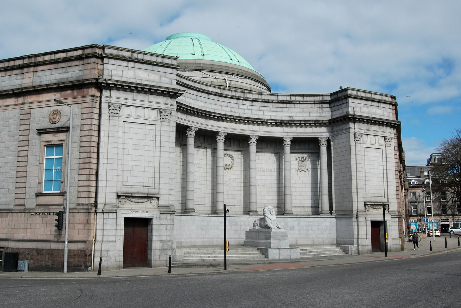 Aberdeen Art Gallery, War Memorial and Cowdray Hall, (Robert Gordon's Institute Of Technology)